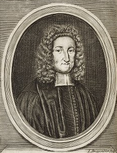 Collection: Folger Shakespeare Library Digital Image Collection Collection Folger Shakespeare Library Digital Image Collection Collection Source Creator: Burgess, Daniel, 1645-1713. Author Burgess, Daniel, 1645-1713. Source Creator Source Title: Characters of a godly man. Both, as more and less grown in grace. By Daniel Burgess, minister of the Gospel. CD_Title Characters of a godly man. Both, as more and less grown in grace. By Daniel Burgess, minister of the Gospel. Source Title Source Created or Published: 1691 Imprint 1691 Source Created or Published Physical Description: frontispiece portrait of Daniel Burgess Page_Numbers frontispiece portrait of Daniel Burgess Physical Description Source Call Number: 158- 686q Call_Number 158- 686q Source Call Number Digital Image File Name: 12923 ROOTFILE 12923 Digital Image File Name Digital Image Type: FSL collection